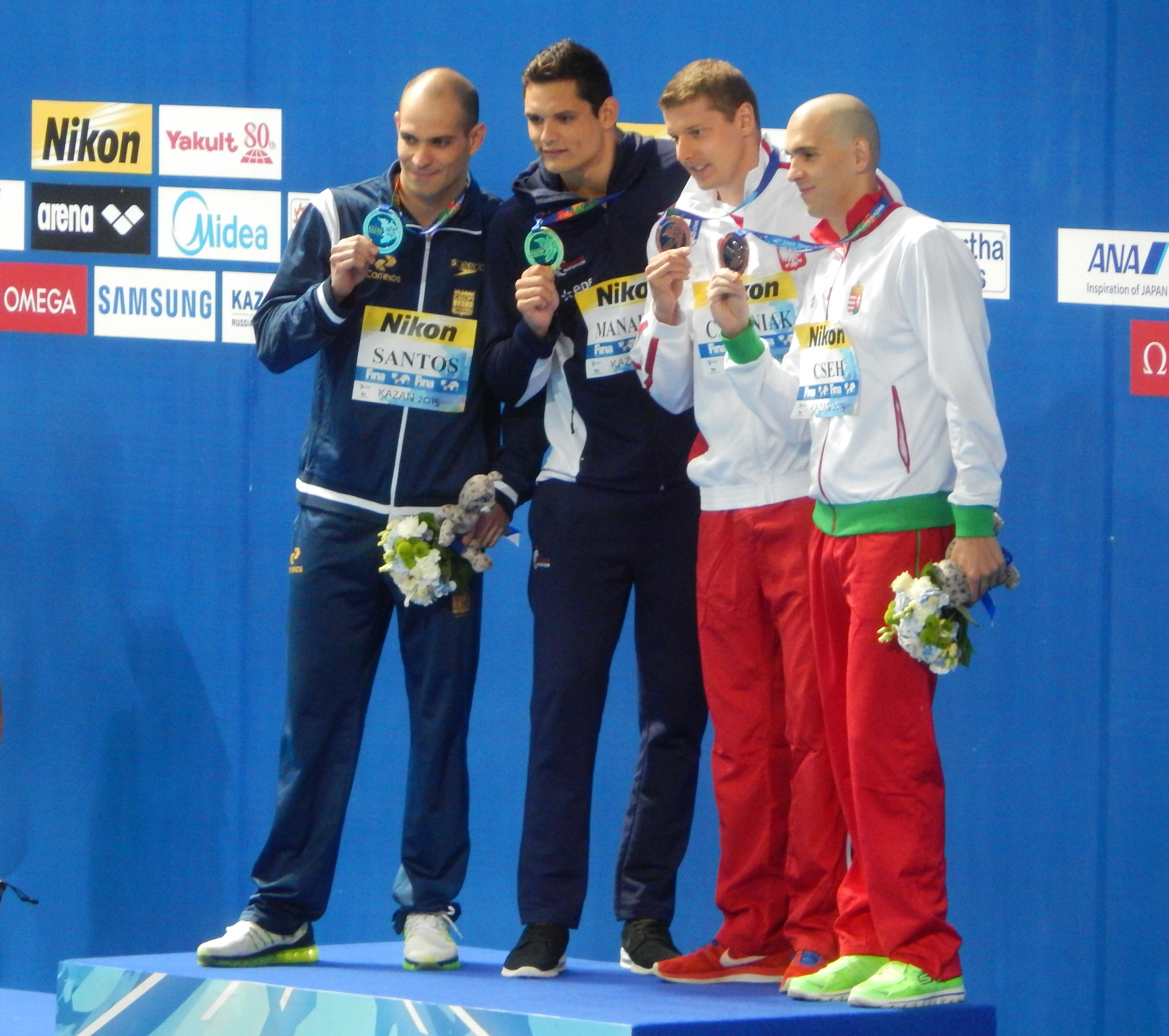 Medallists at the men's 50 metres butterfly in Kazan 2015